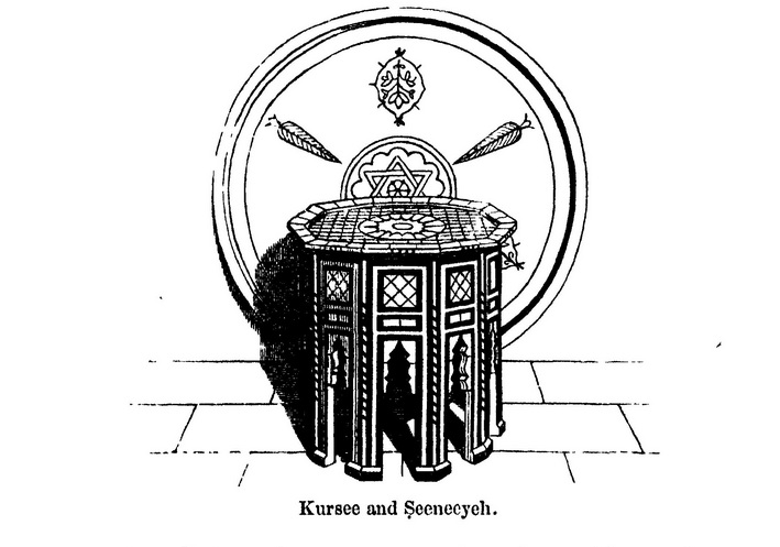 arabic stool (kursee) with round tray in the background (seeneeyeh)